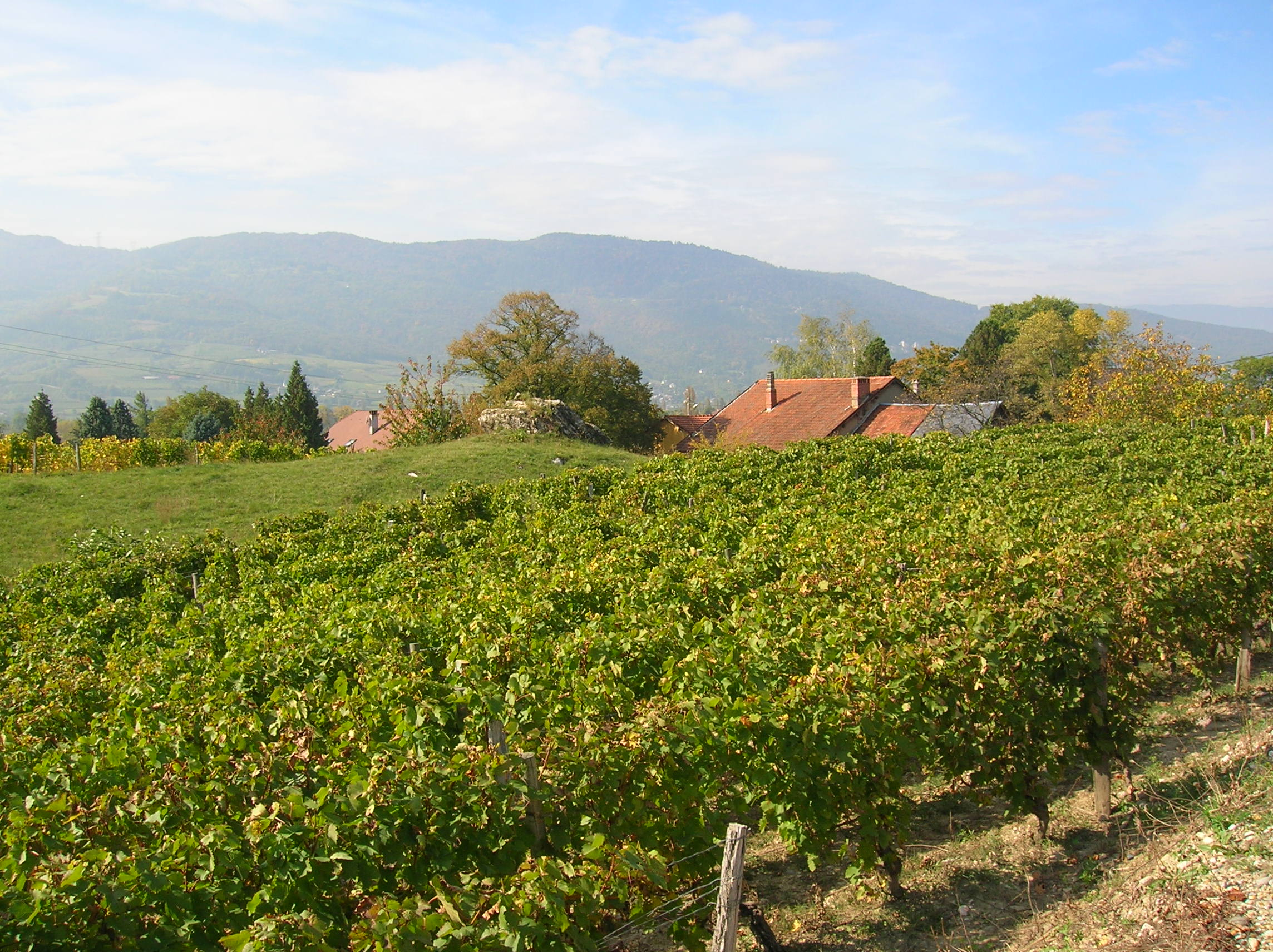 Vineyard in Savoy (French Alps) at Myans